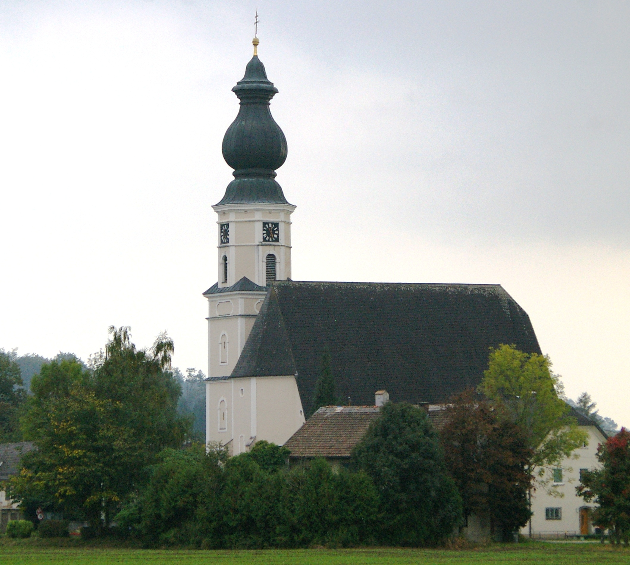 parish church Feldkirchen bei Mattighofen Upper Austria